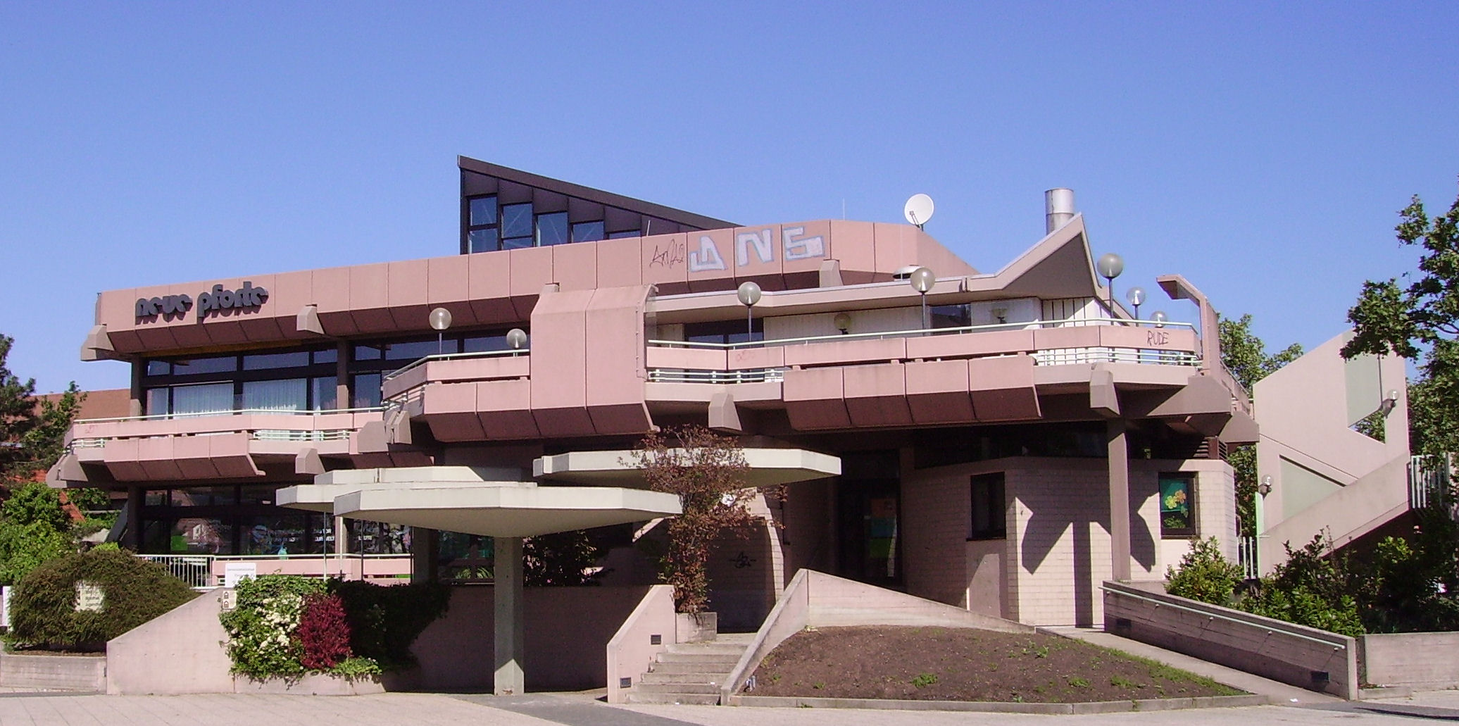 view of Mutterstadt, Germany